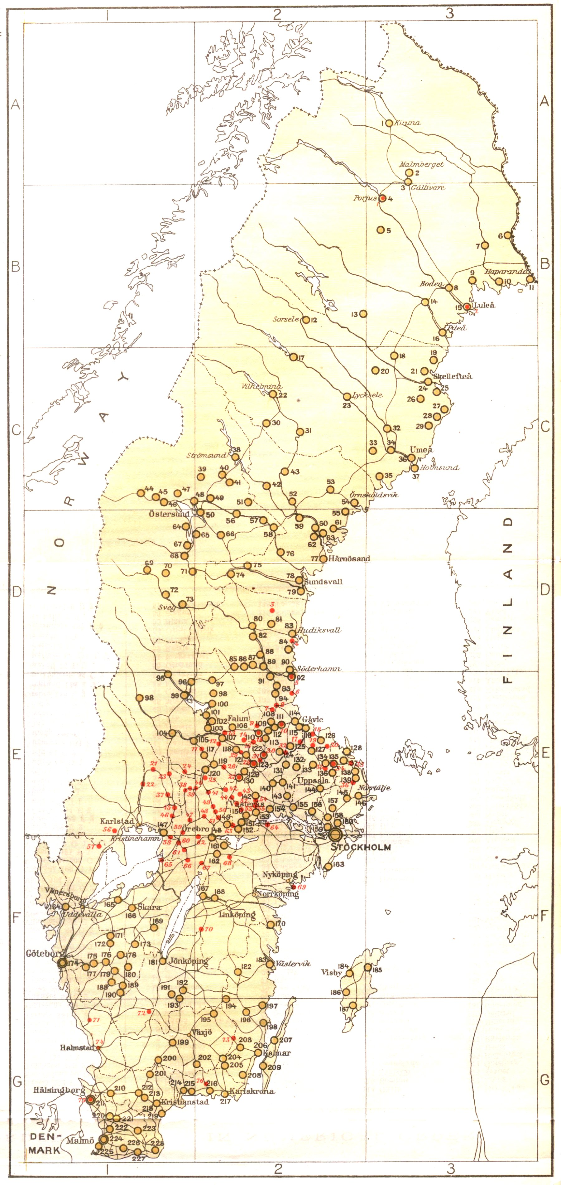 Map of Swedish iron and steel foundries. Legend: Red dots and numbers indicate iron works, as listed here. Black numbers and dots indicate bank offices of Svenska Handelsbanken, as listed here.